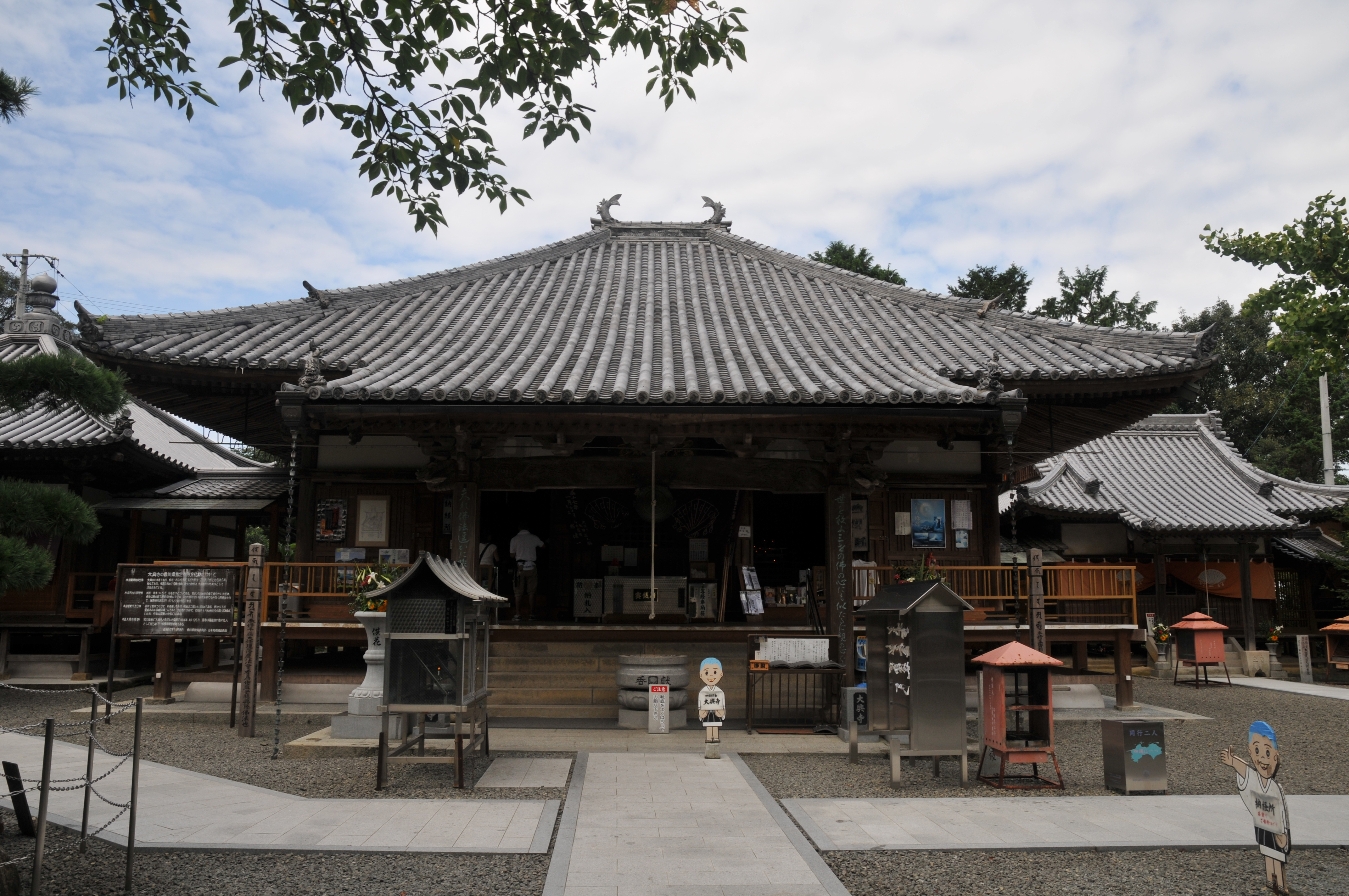 Main temple, Daikō-ji